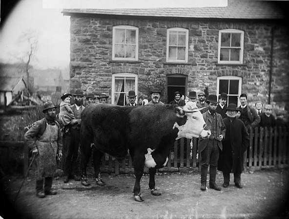 1 negative : glass, dry plate, b&w ; 16.5 x 21.5 cm.